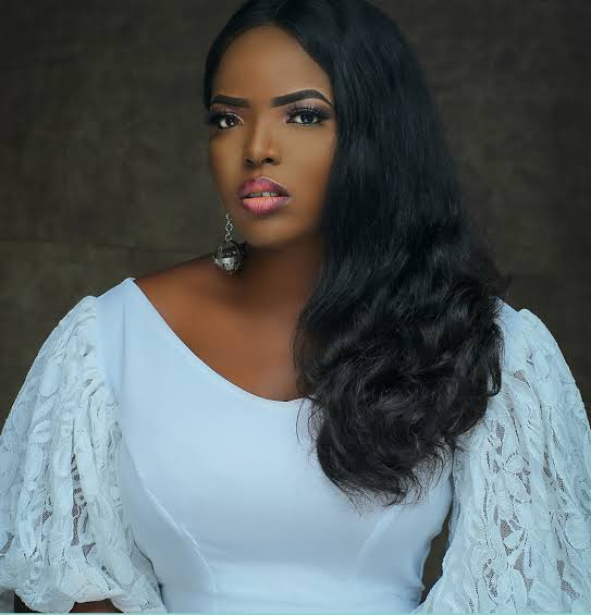 Princess Peters in September, 2017